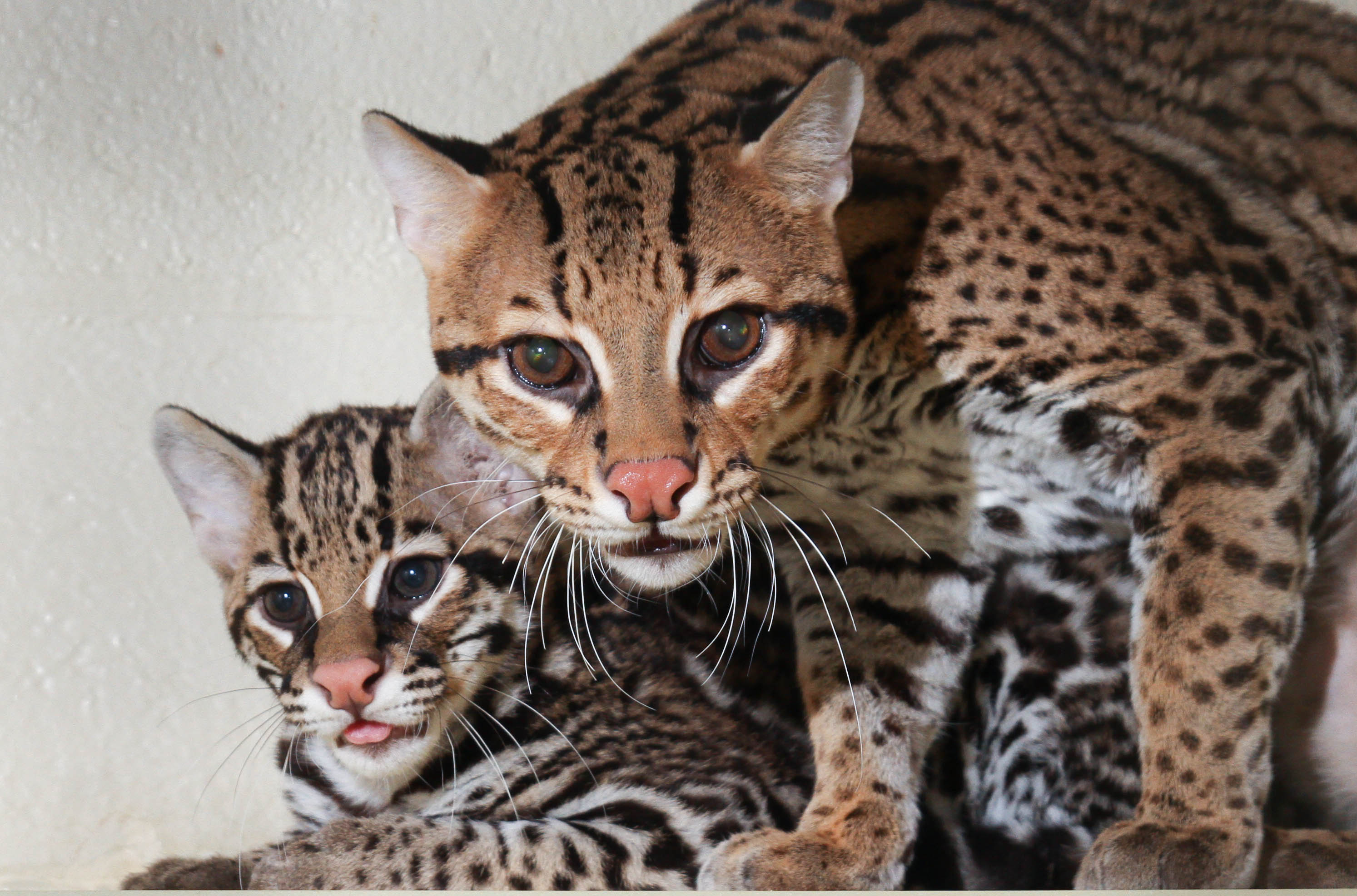 A mother ocelot (Leopardus pardalis) and her cub at the Cincinnati Zoo. This photo was taken on April 29, 2013 using a Canon EOS 7D.